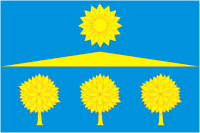 Solnechnogorsk rayon (Moscow oblast), flag